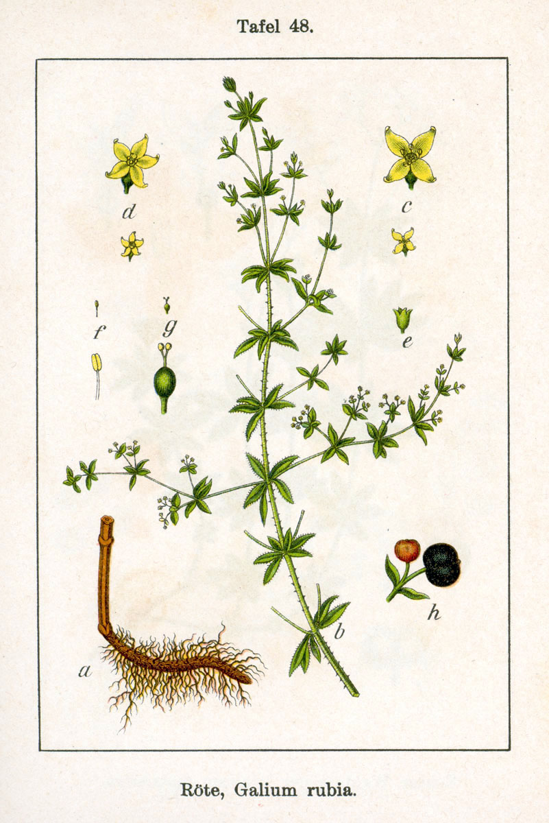 Rubia tinctorum L., syn. Galium rubia E.H.L.Krause Original Description Röte, Galium rubia